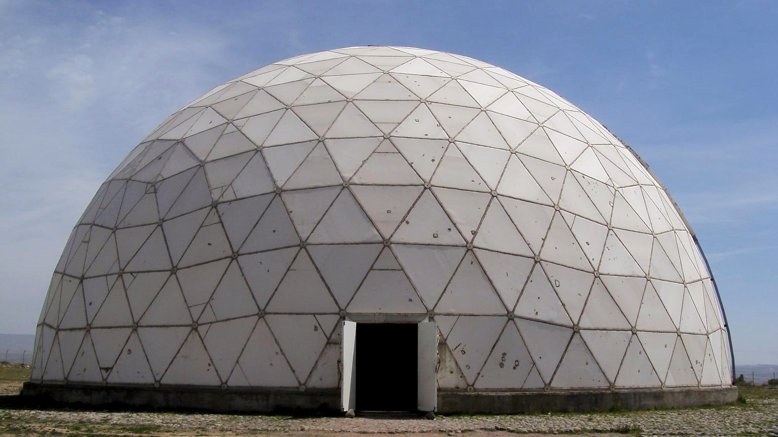 Maragheh observatory, Maragheh, Iran